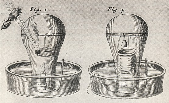 Engraving from one of John Mayow's books